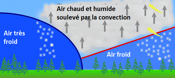 A Diagram i made after i saw a freak thunder snow in the plains.